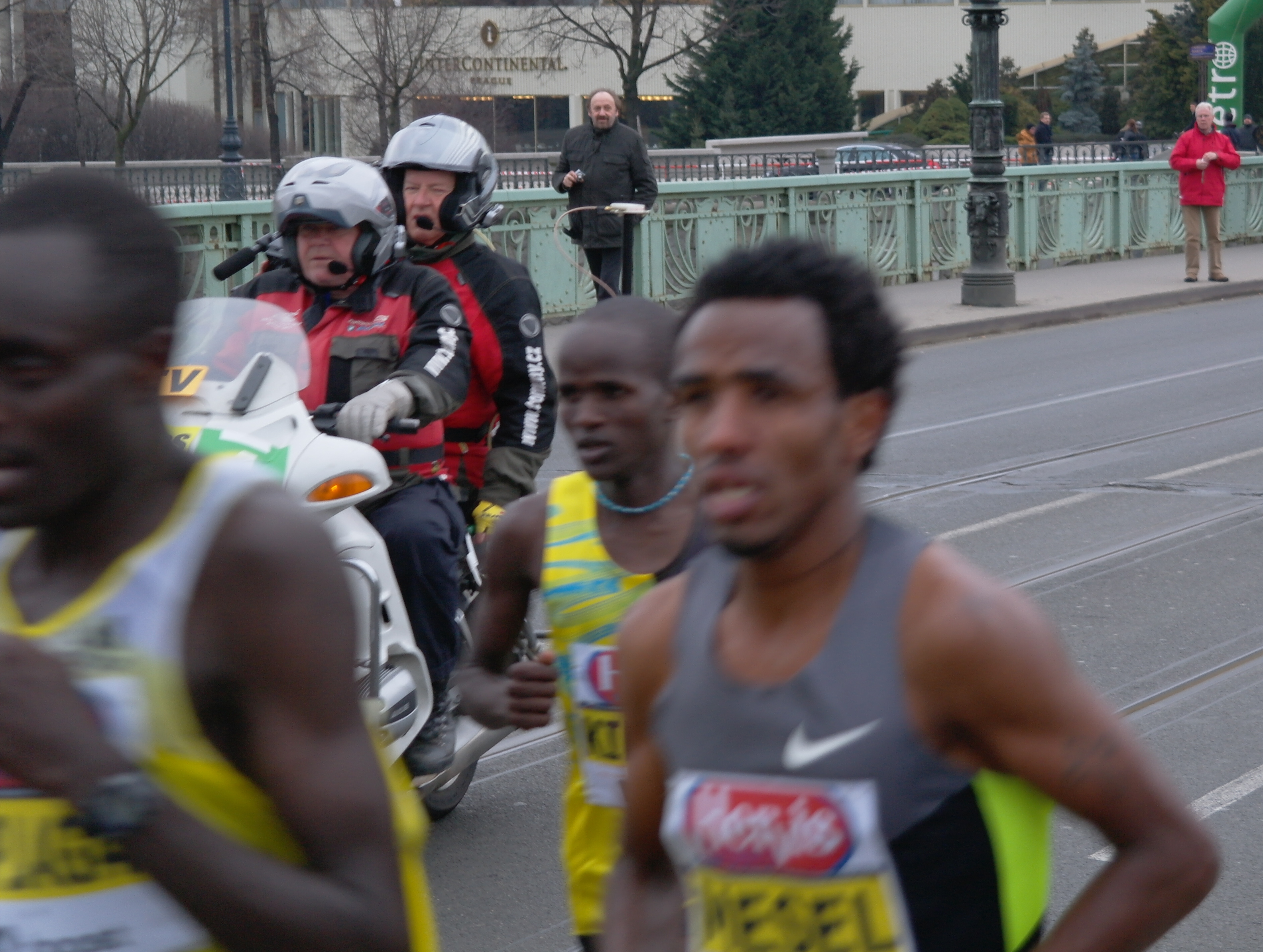 Prague Half Marathon 2013 - Left to right: Henry Kiplagat, John Korir Kipsang and Amanuel Mesel crossing the Čechův most a few minutes before finishing the race